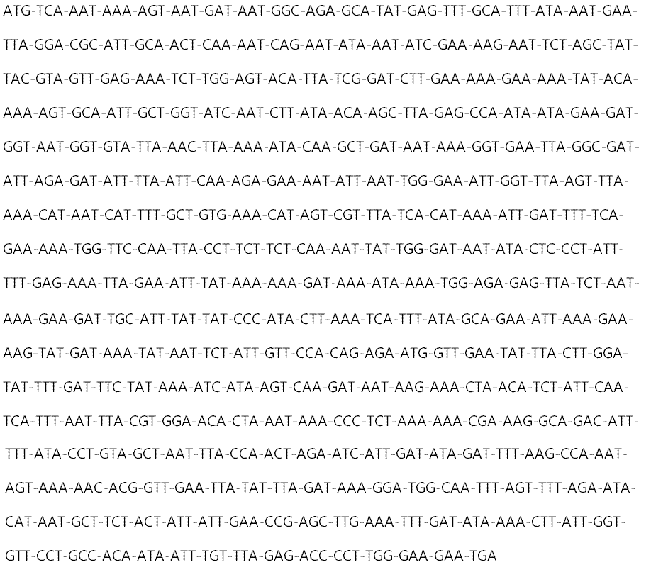 DNA code of the HaeIII enzyme.